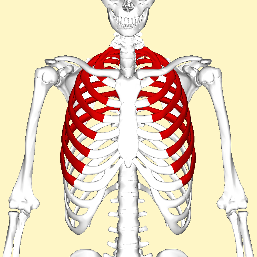 True ribs (shown in red).